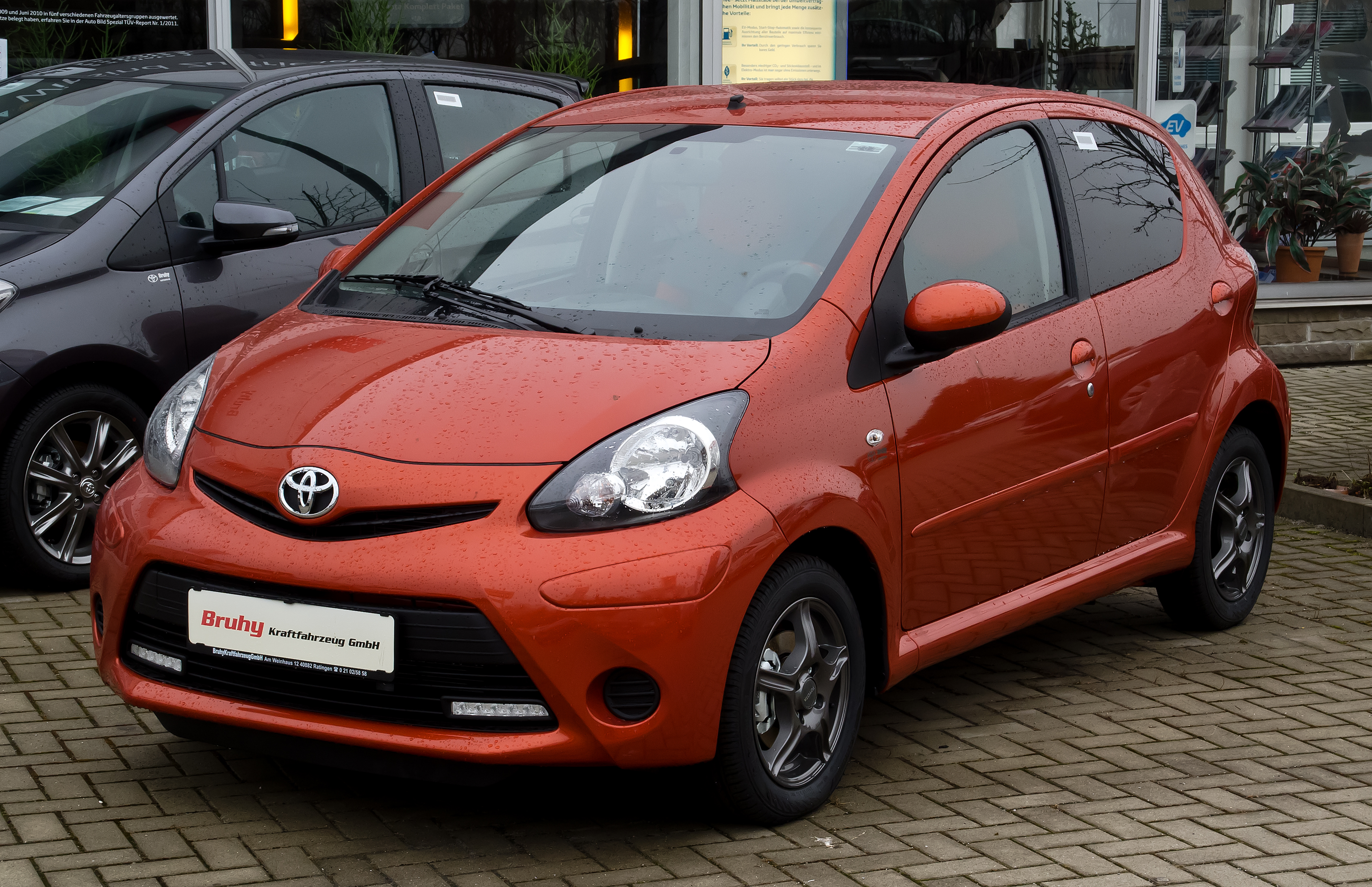 Toyota Aygo 1.0 VVT-i Connect STYLE (2. Facelift)